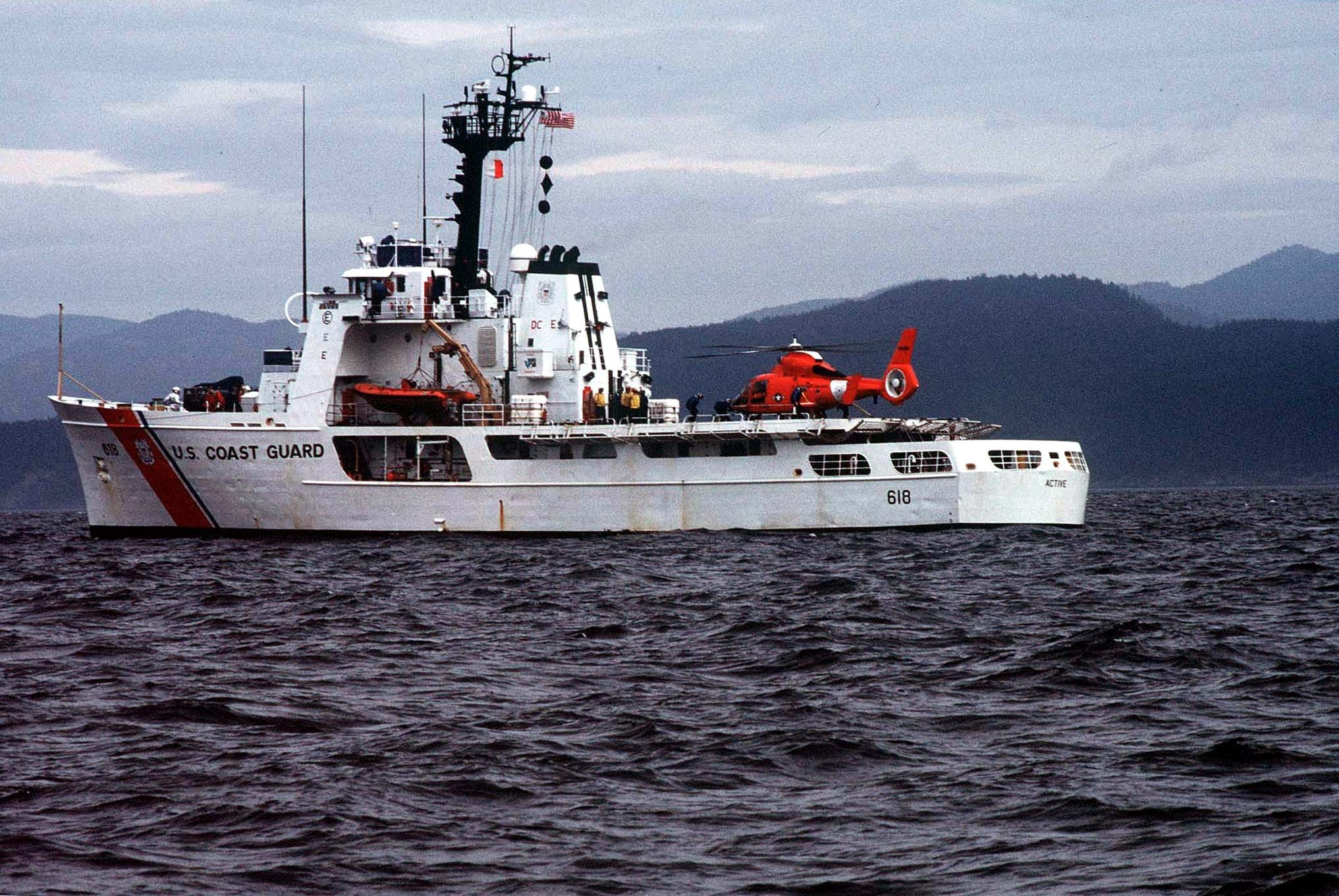 Port Angeles, WA (Sept. 6) -- A Coast Guard HH-65 Dolphin helicopter lands on the Coast Guard Cutter Active (WMEC 618) while underway in the Strait of Juan de Fuca. USCG photo by PA2 Jacquelyn Zettles